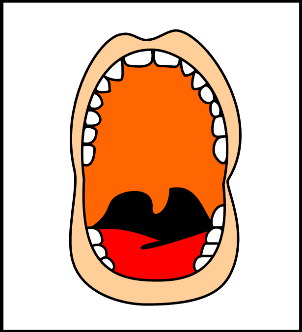 image made by myself. Front view of the mouth before pharyngeal flap surgery.